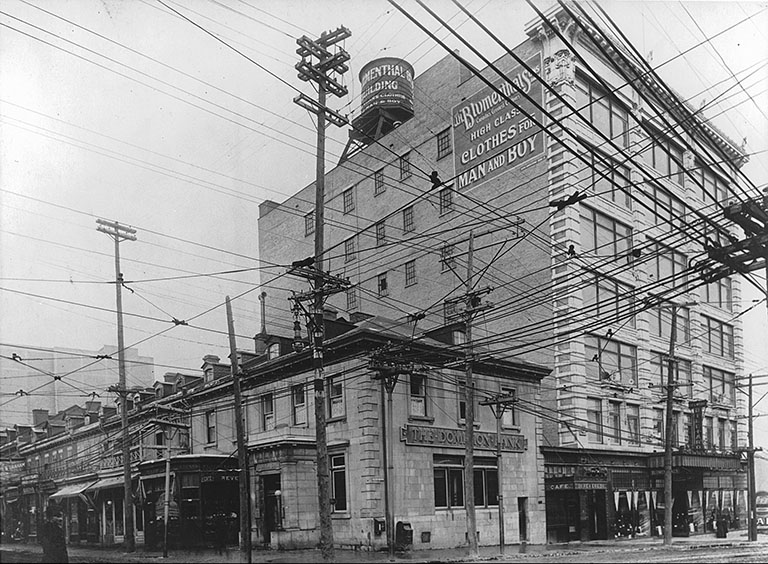 MP-1978.207.1.40 Dominion Bank, corner Bleury and St. Catherine Streets, Montreal, QC, about 1915 Anonymous About 1915, 20th century Notman photographic Archives - McCord Museum MP-1978.207.1.40 Banque Dominion, angle des rues Bleury et Sainte-Catherine, Montréal, QC, vers 1915 Anonyme Vers 1915, 20e siècle Archives photographiques Notman - Musée McCord To see the image file on the McCord Museum website, click on the following link: Pour voir la fiche descriptive de cette photographie sur le site Web du Musée McCord, cliquer le lien suivant